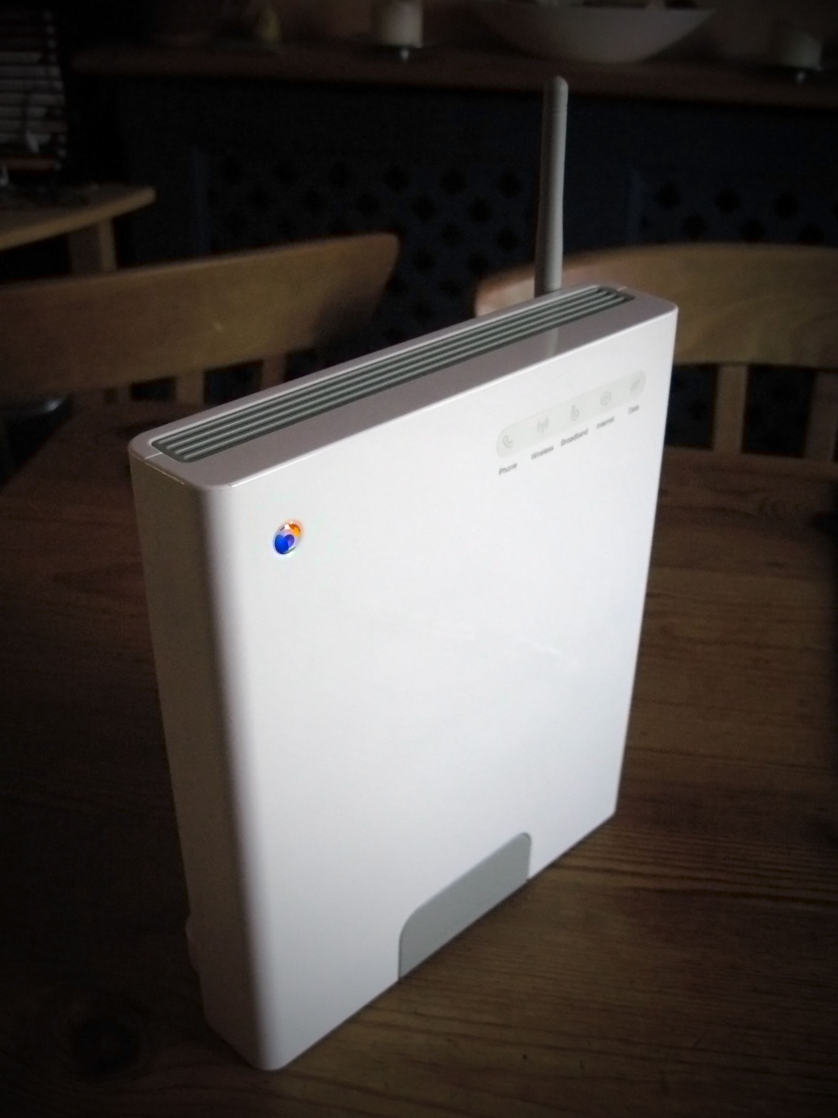 A picture of the BT Home Hub